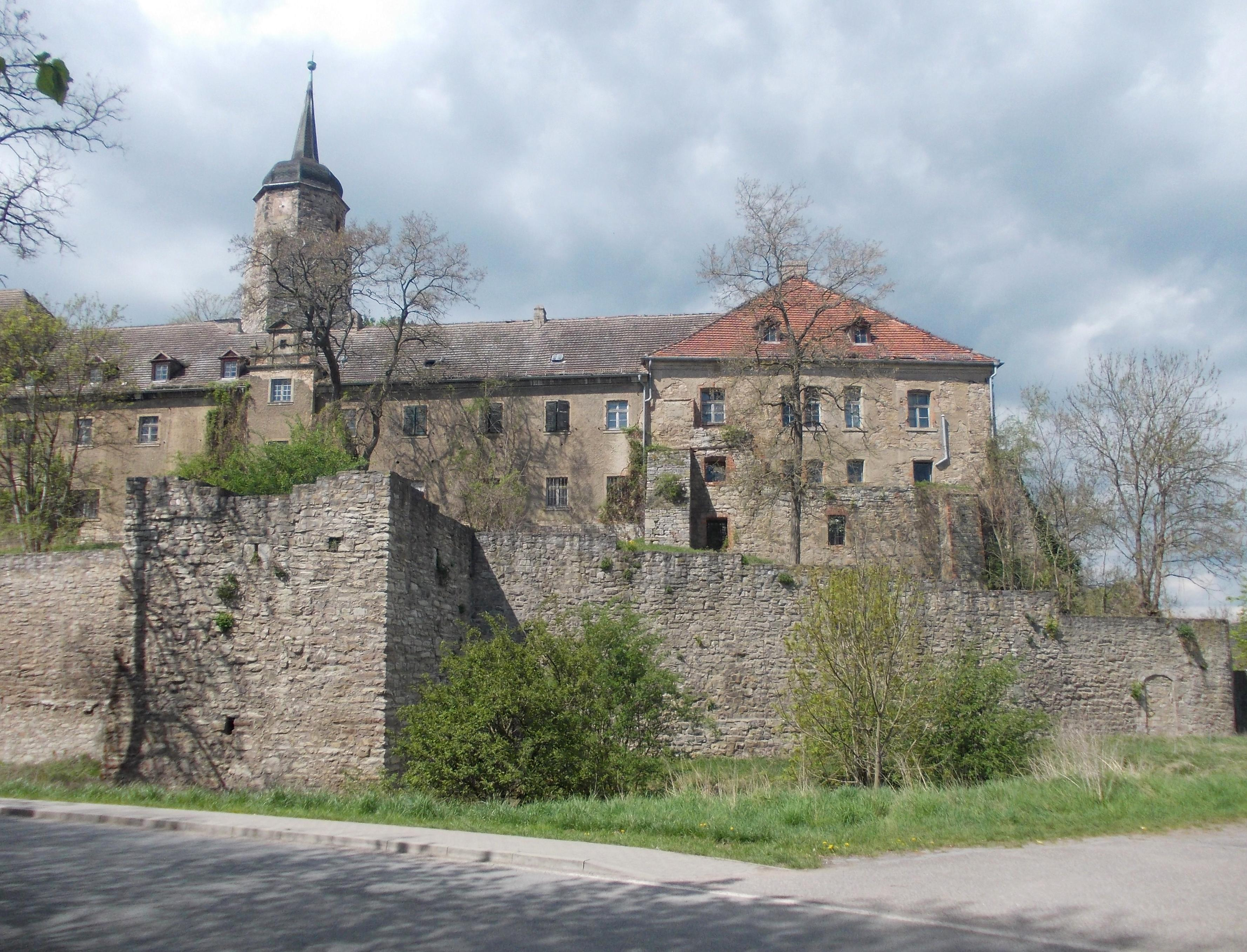 Seeburg Castle (Seegebiet Mansfelder Land, Mansfeld-Südharz district, Saxony-Anhalt)